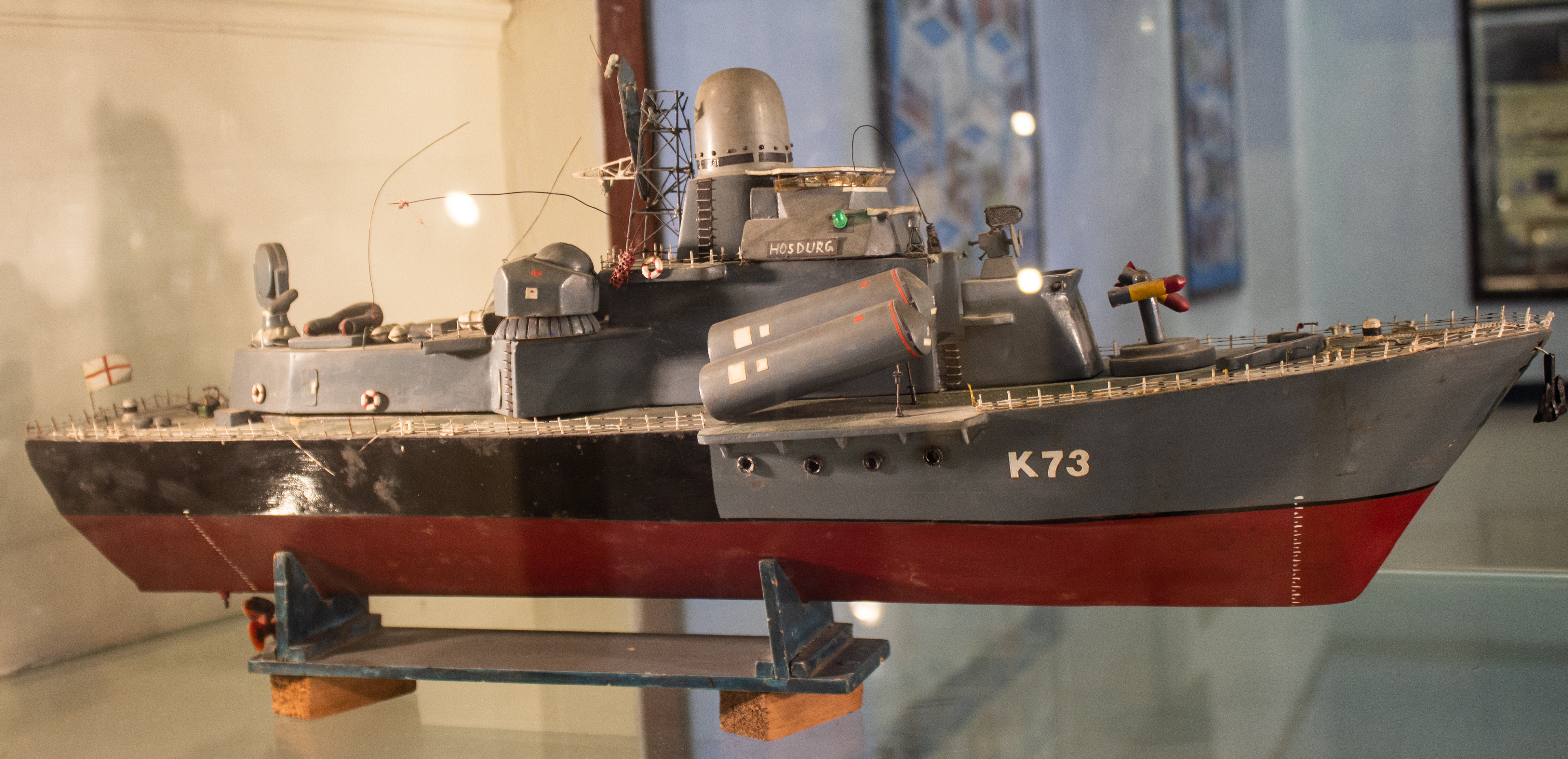 Model of INS Hosdurg (K73), on display at Visakha Museum, Andhra Pradesh, India. It was the lead ship of the Durg-class corvettes of the Indian Navy. Object location17° 43′ 14.55″ N, 83° 20′ 01.79″ E